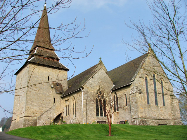 St Mary's parish church, Kington, Herefordshire, seen from the east